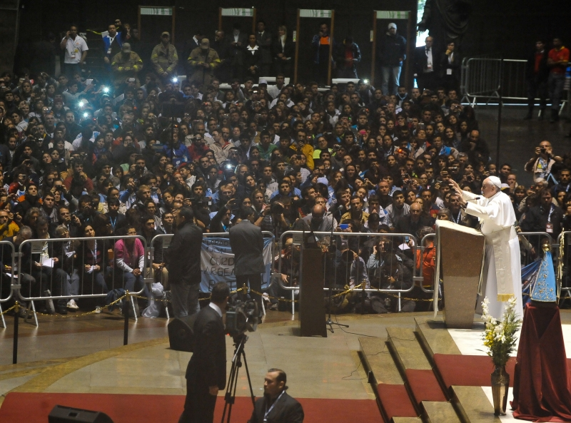 Francisco entre peregrinos argentinos durante la JMJ 2013